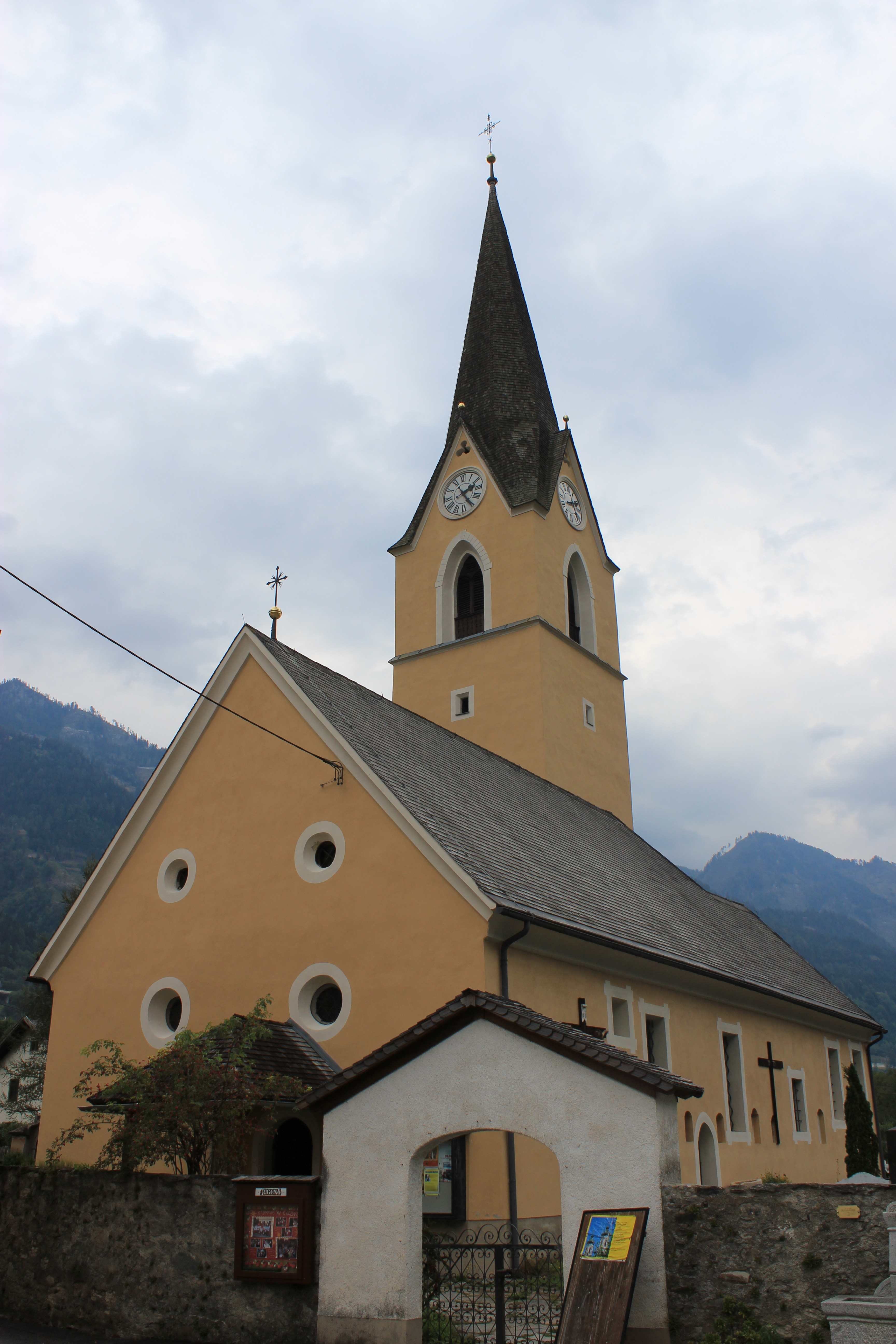 Church in Kolbnitz in the community Reißeck